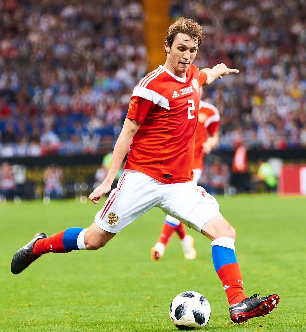 Russia vs. Czech Republic, 10 September 2018